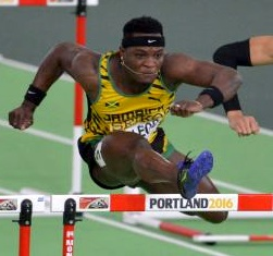 Omar McLeod, Portland 2016